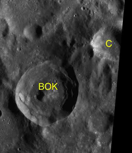 Part of the chart LAC-104 used for the presentation